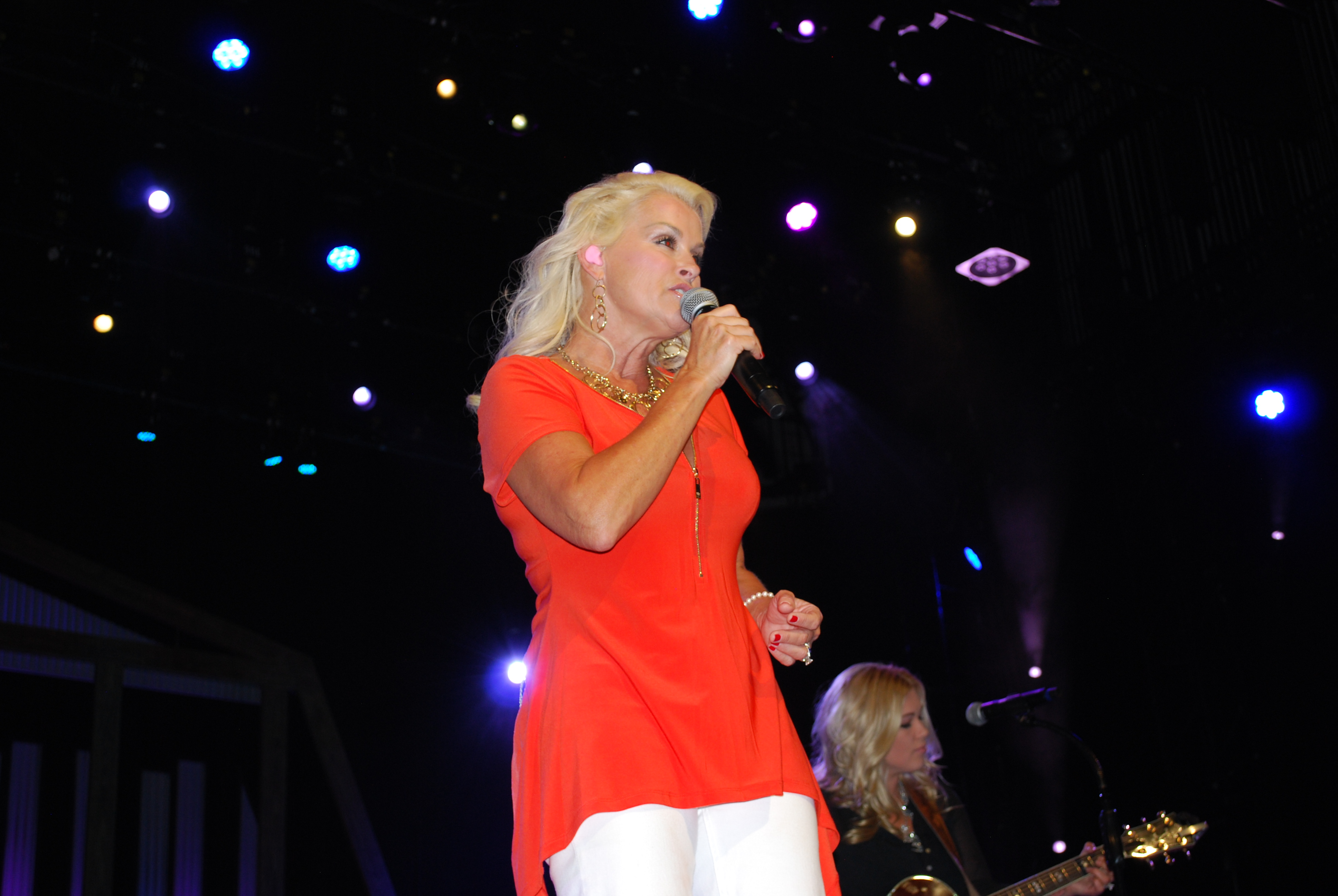 Lorrie singing her newest song, Jesus and Hairspray